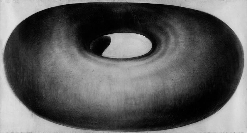 Jiří Kornatovský: Liturgic meditation (1990-1994), charcoal on cardboard, 220 x 460 cm